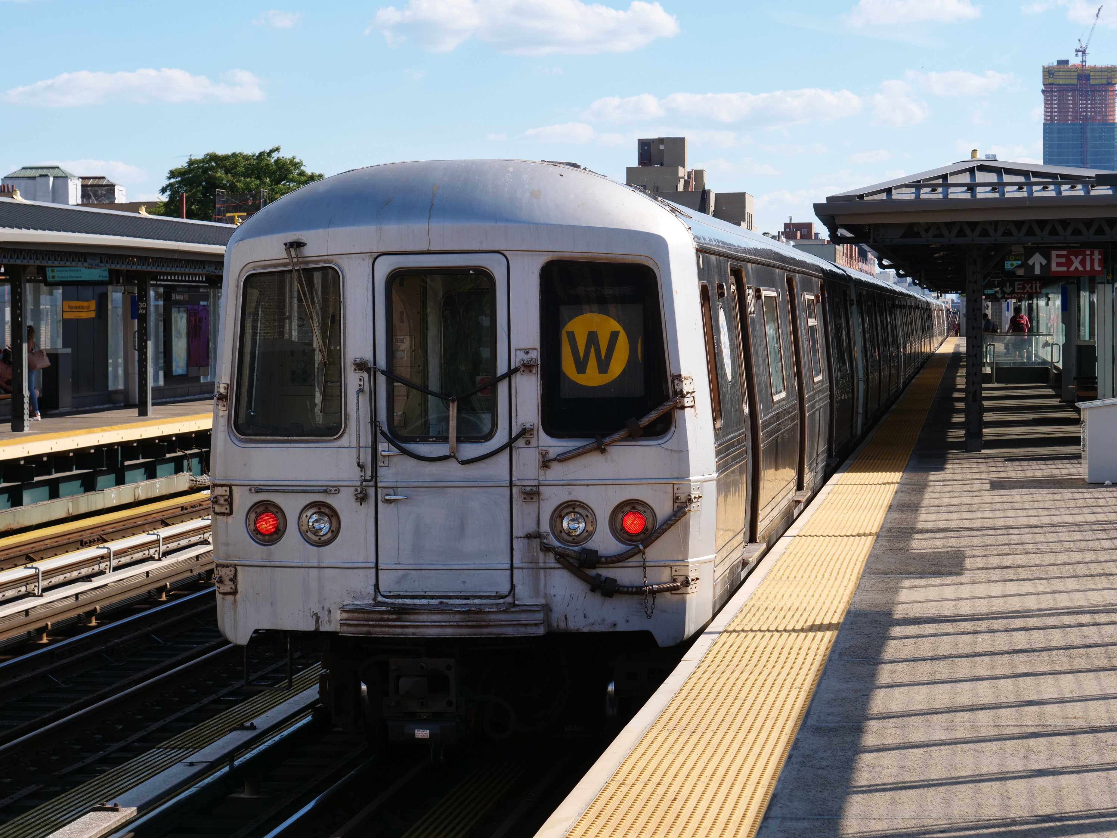 A southbound R46 W train pulling out of 30th Avenue in Queens, BMT Astoria Line.